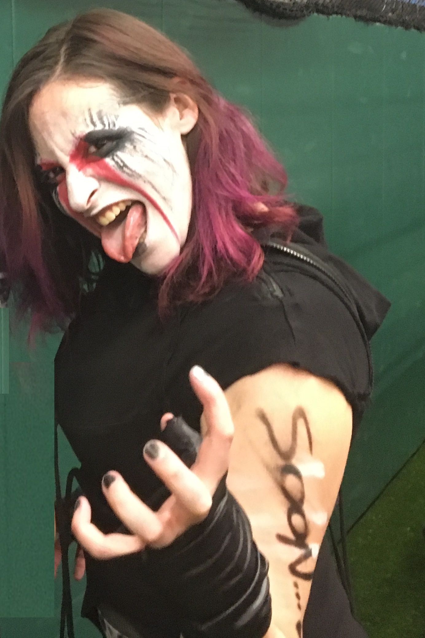 Edited photo of the wrestler Rosemary.